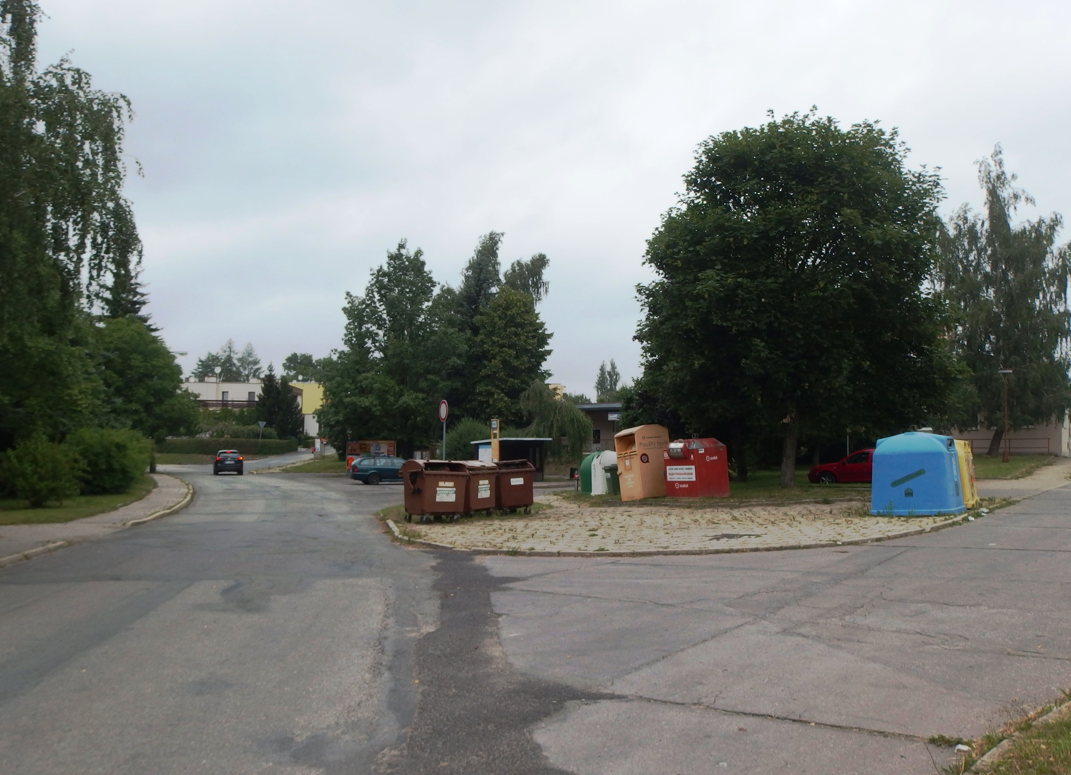 Žďár nad Sázavou, Czechia.